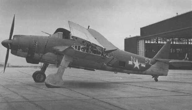 Aichi B7A Ryusei captured by the US and test flown in 1946 by the US air intelligence unit ATAIU-SEA. Note the US national insignias (US Star instead of Japanese Hinomaru).